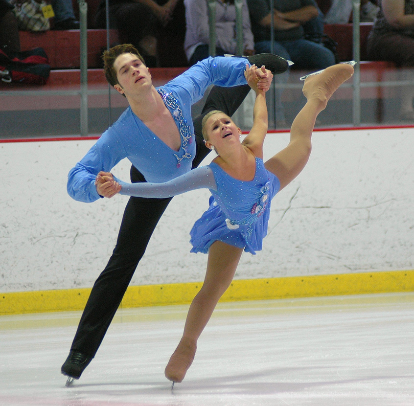 Jessica Rose Paetsch and Drew Meekins compete in the short program at the 2008 Indy Pair Challenge in Indianapolis, Indiana.